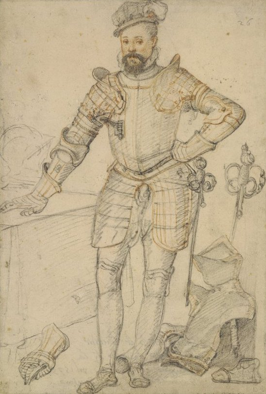 A corrresponding drawing of Queen Elizabeth exists by the same artist. They are preparatory sketches for full-scale portraits intended for the Kenilworth Festival in July 1575. (Elizabeth Goldring: "The Earl of Leicester's Inventory of Kenilworth Castle, c.1578", English Heritage Historical Review, Vol. 2, 2007, p. 38)